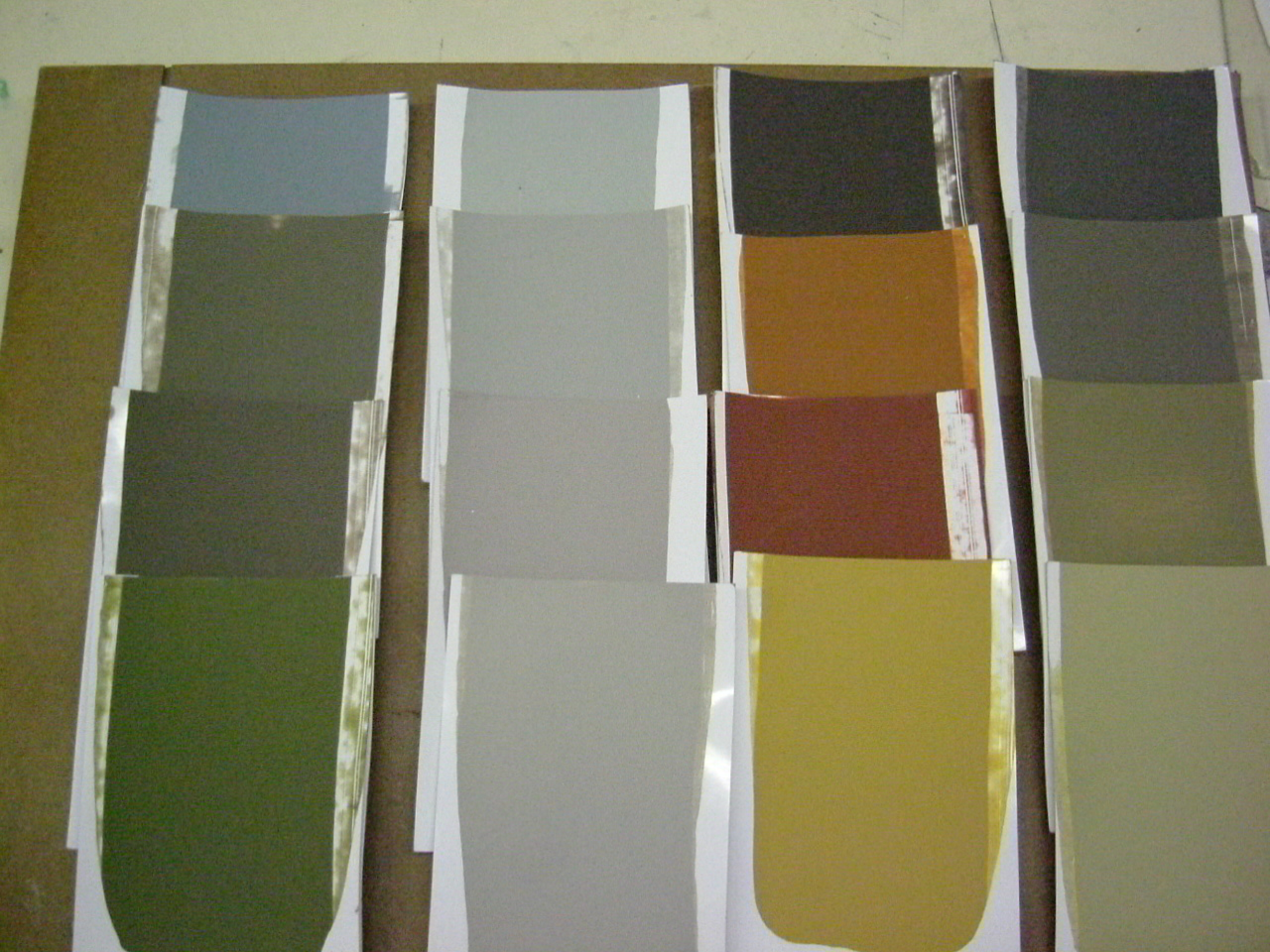 Amoriguard samples